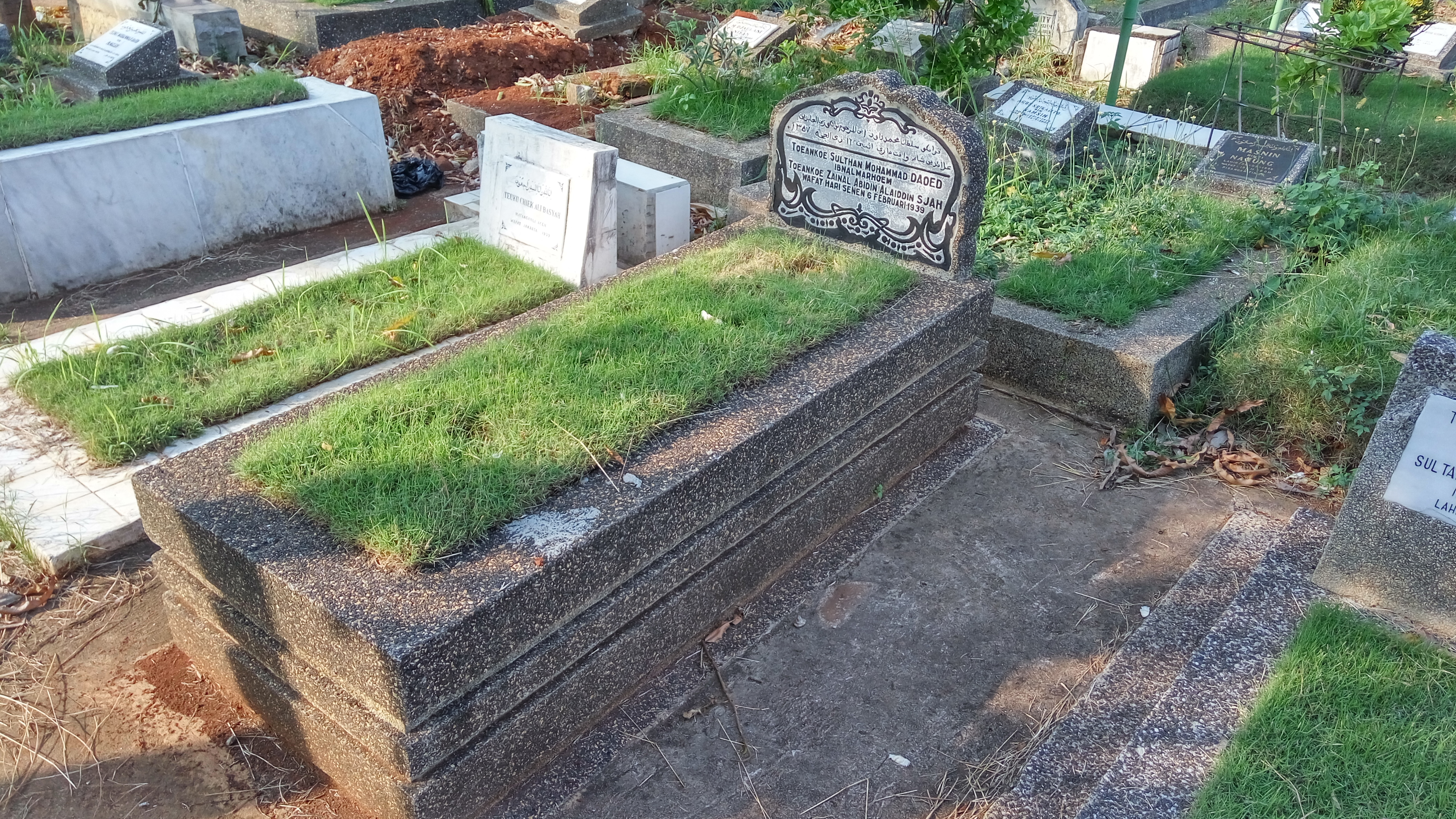 Sultan Muhammad Daud Syah grave in Rawamangun, Jakarta.